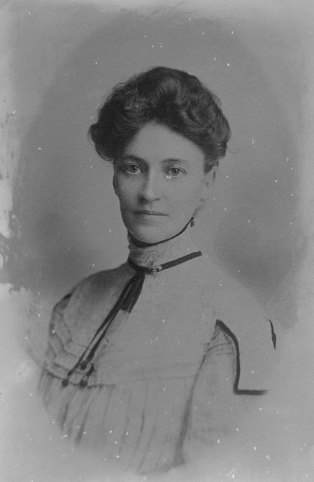 Photo portrait of Louise Crombie Beach (1868-1924), wife of Charles Lewis Beach, President of the University of Connecticut (1908-1928).